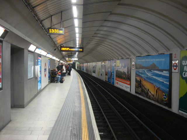 King's Cross St. Pancras tube, westbound subsurface platform The Hammersmith & City, Circle and Metropolitan Line use this platform, It has recently been refurbished.